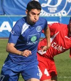 KF ADA